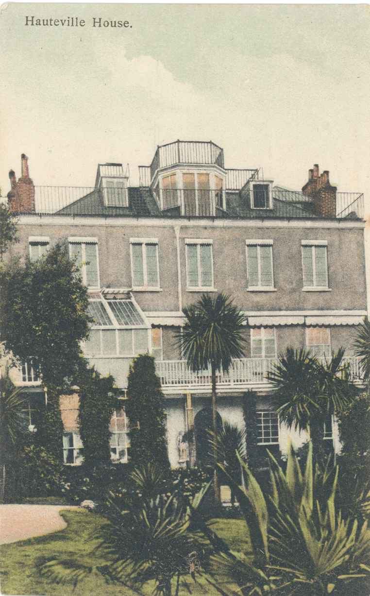 Hauteville House in a 19th century postcard